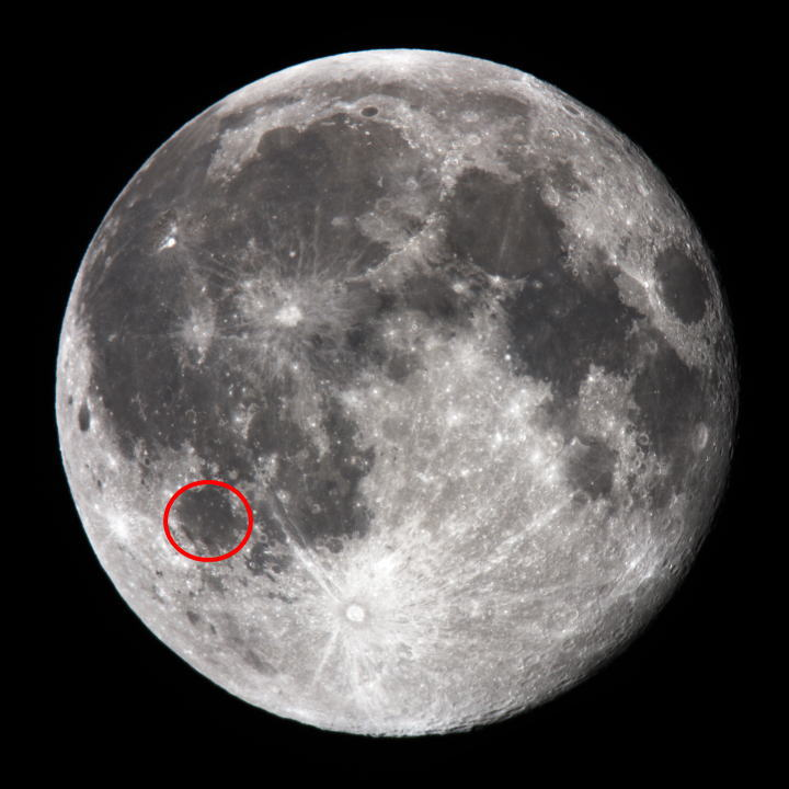 The Location of Mare Humorum, One of the Lunar Geographical Features.